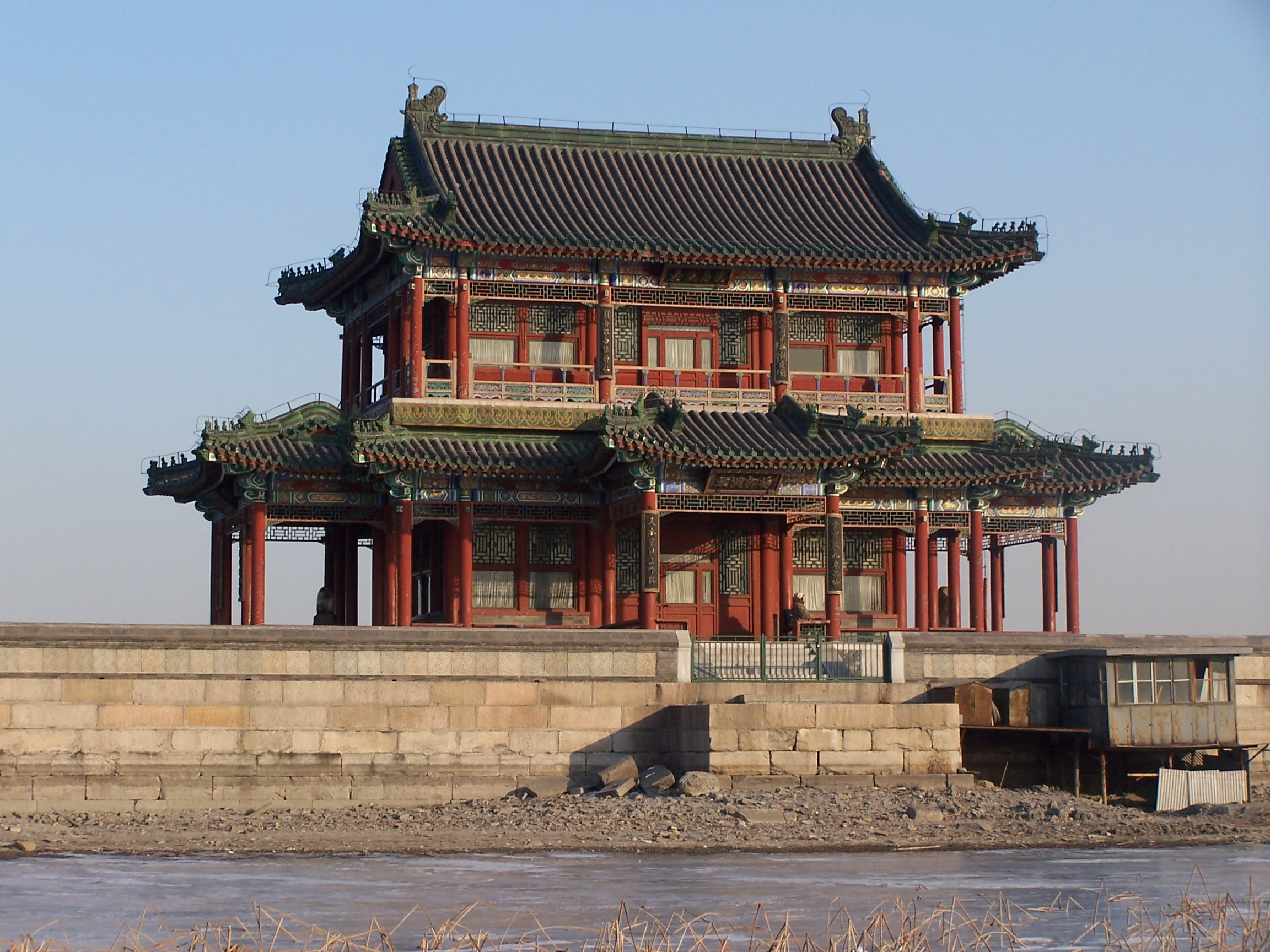 West Bank, Summer Palace at Beijing, China